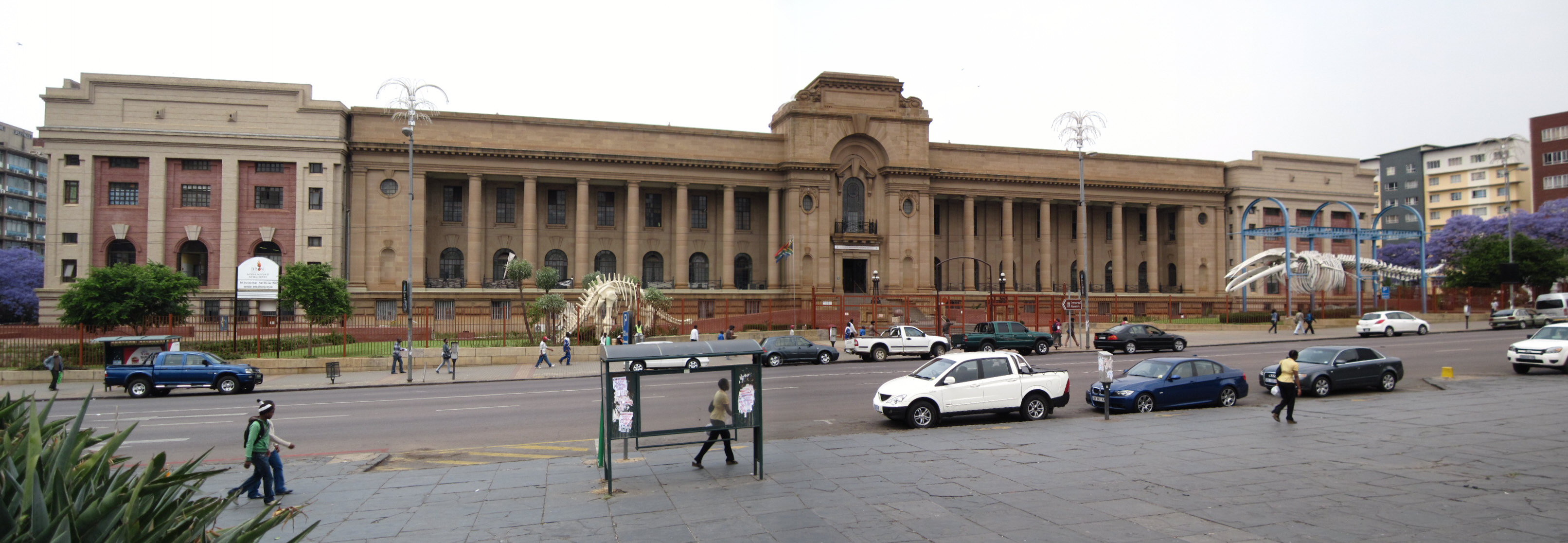 Transvaal Museum